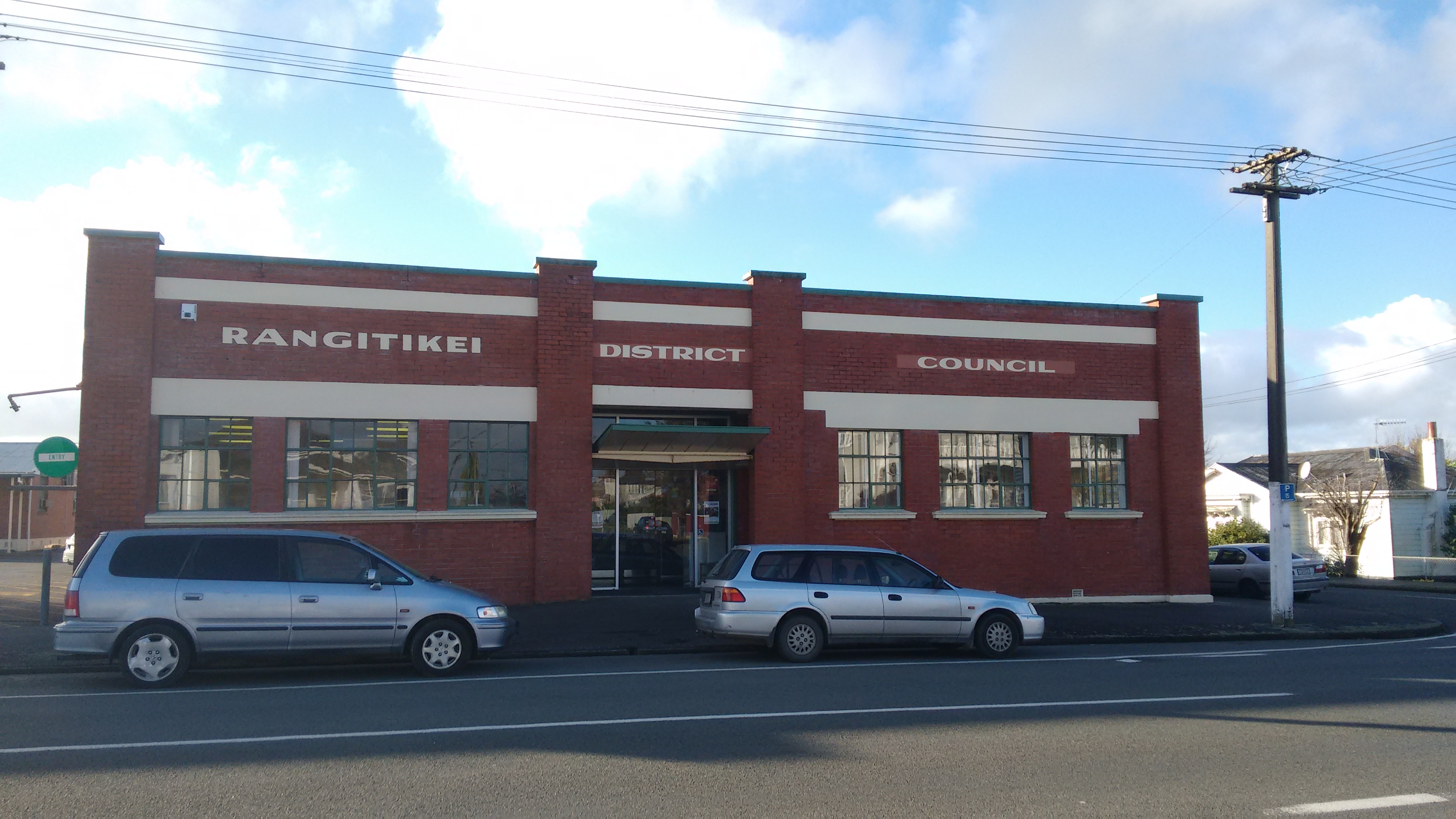 View of the Rangitikei District Council building in Marton, New Zealand.